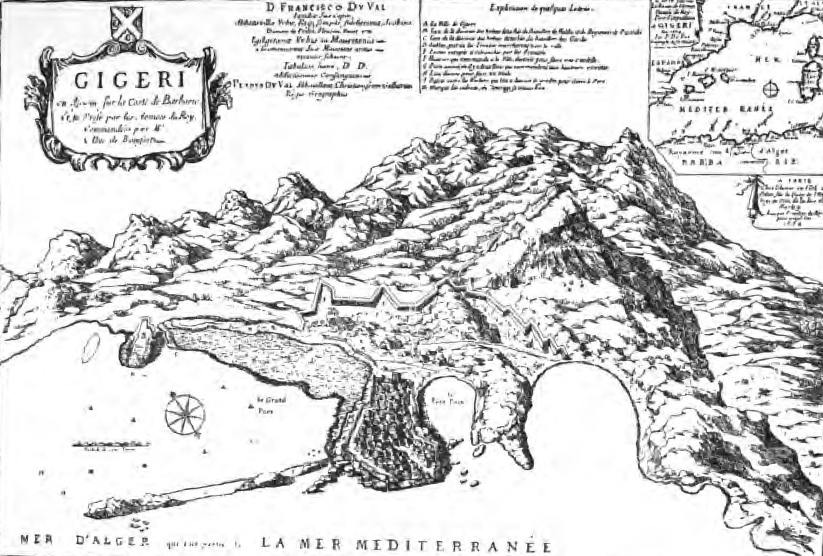 Jijel in 1664, found in The Story of the Barbary Corsairs' by Stanley Lane-Poole, published in 1890 by G.P. Putnam's Sons.